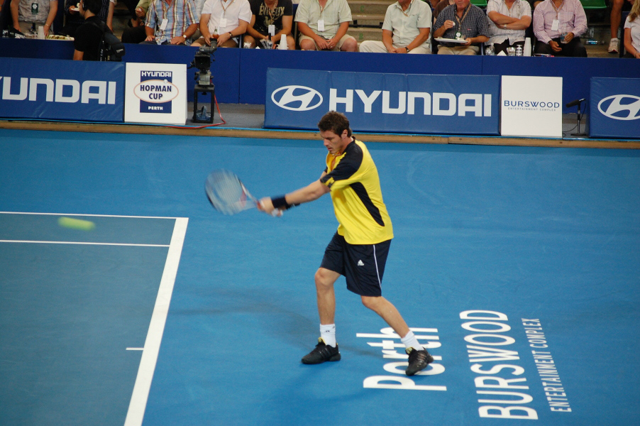 Picture was taken during the Hopman Cup 2009 in Perth where Marat Safin was returning a shot against Simone Bolelli.